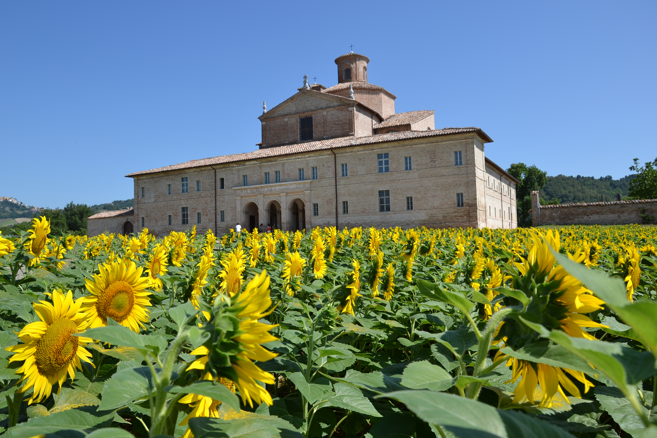 Ducal Palace of Urbania